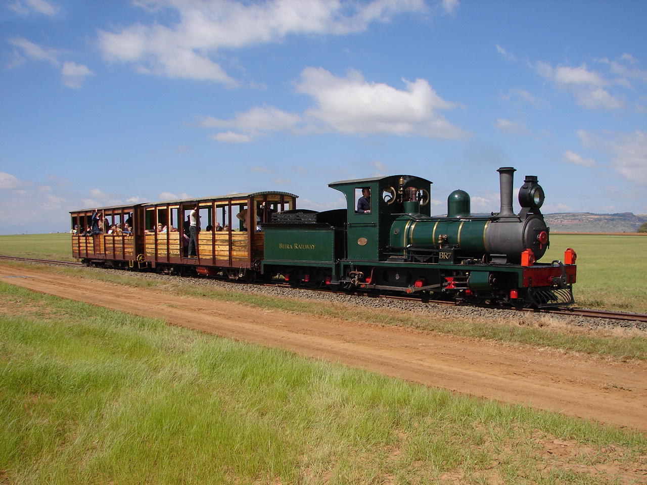 Beira Railway BR7 (4-4-0), SAR Class NG6Location: Sandstone Estates, Ficksburg, Free State